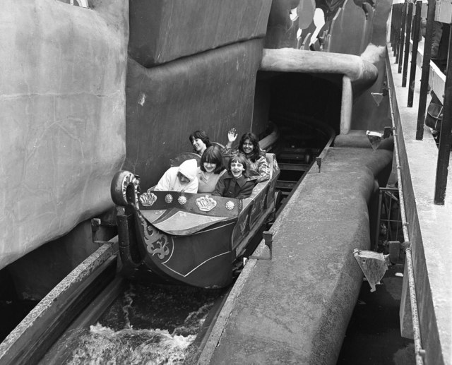 At the Pleasure Beach, Blackpool Blackpool's Pleasure Beach has provided wholesome fun for generations of the young-in-heart. Here, five young girls enjoy a ride on the Water Chute.